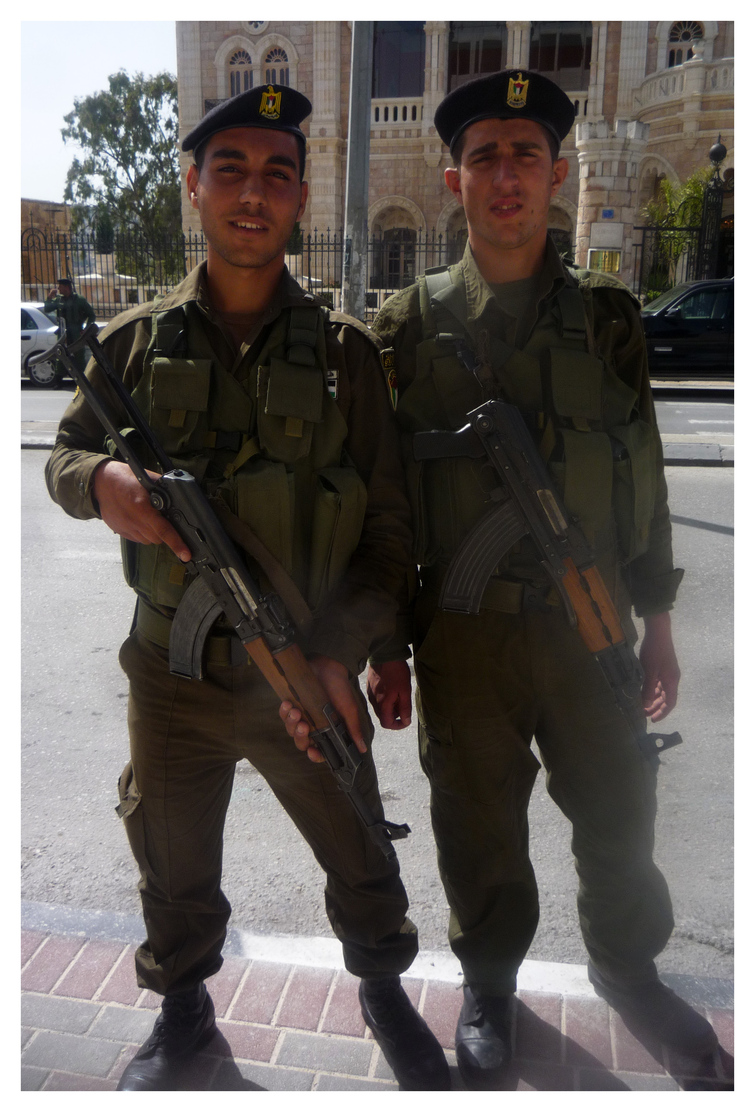 Palestinian National Security Forces in Bethlehem